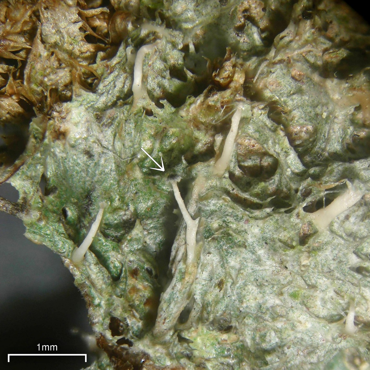 The lichen species Gomphillus americanus Essl. The arrow points to an intact hyphophore. Specimen collected from Dabney Creek, Madison Co., Arkansas, USA. "Notes: on mossy boulder by creek".